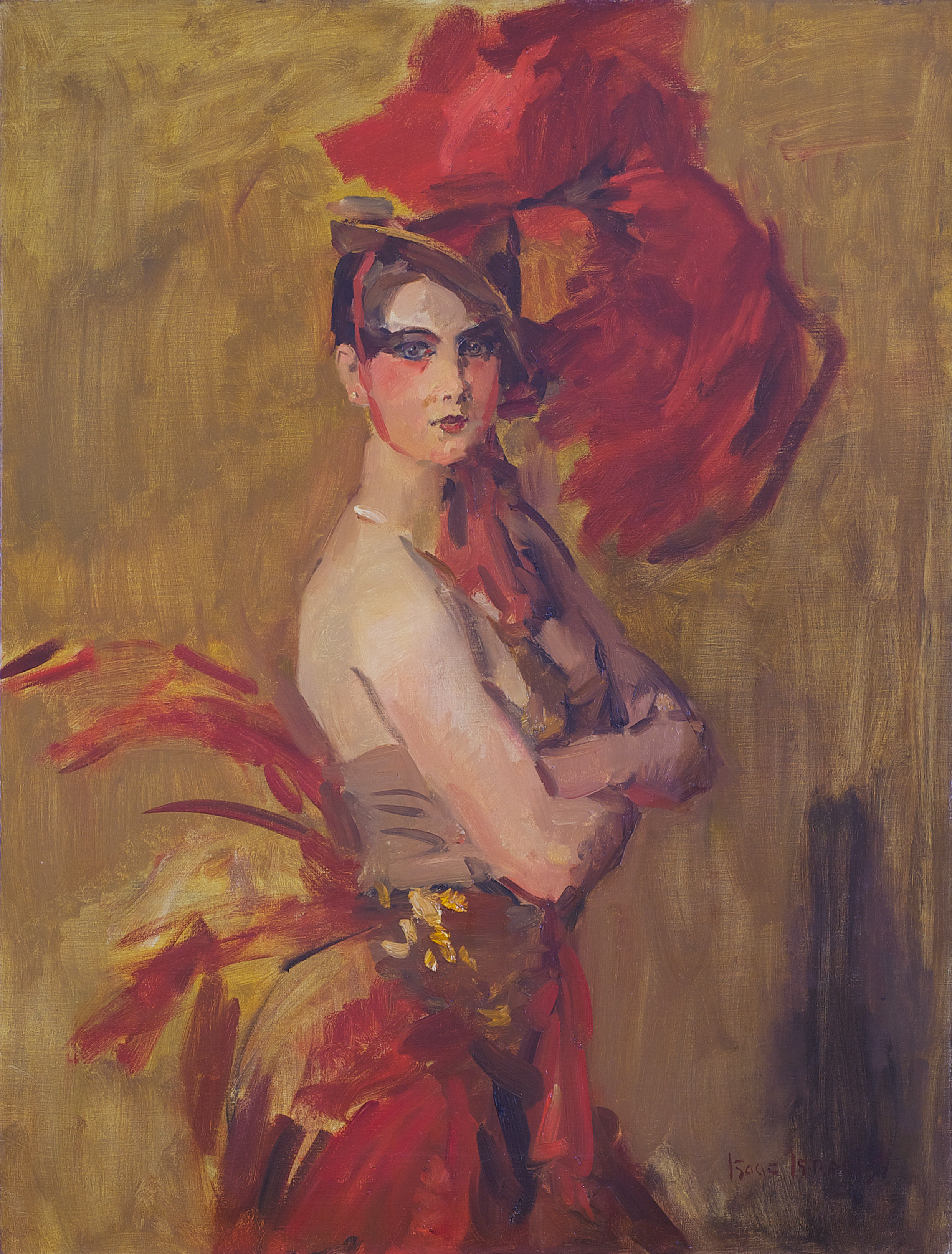 Show-girl (La Cocotte) at Scala Theatre, The Hague oil on canvas 70 x 60 cm signed b.r.: Isaac Israels 1920 – 1934